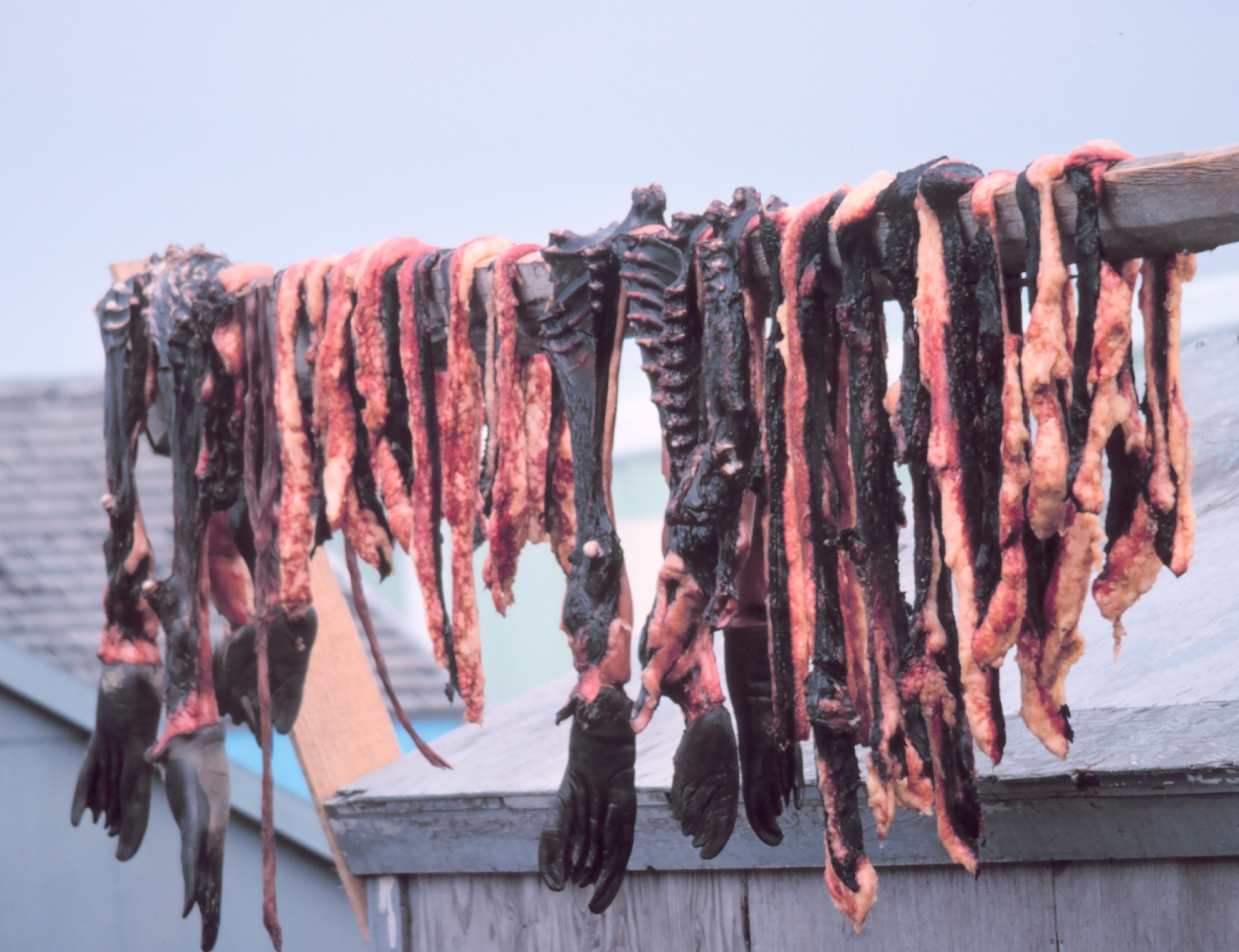 Seal meat hanging to dry on St. Lawrence Island, Savoonga, Bering Sea, Alaska, United States